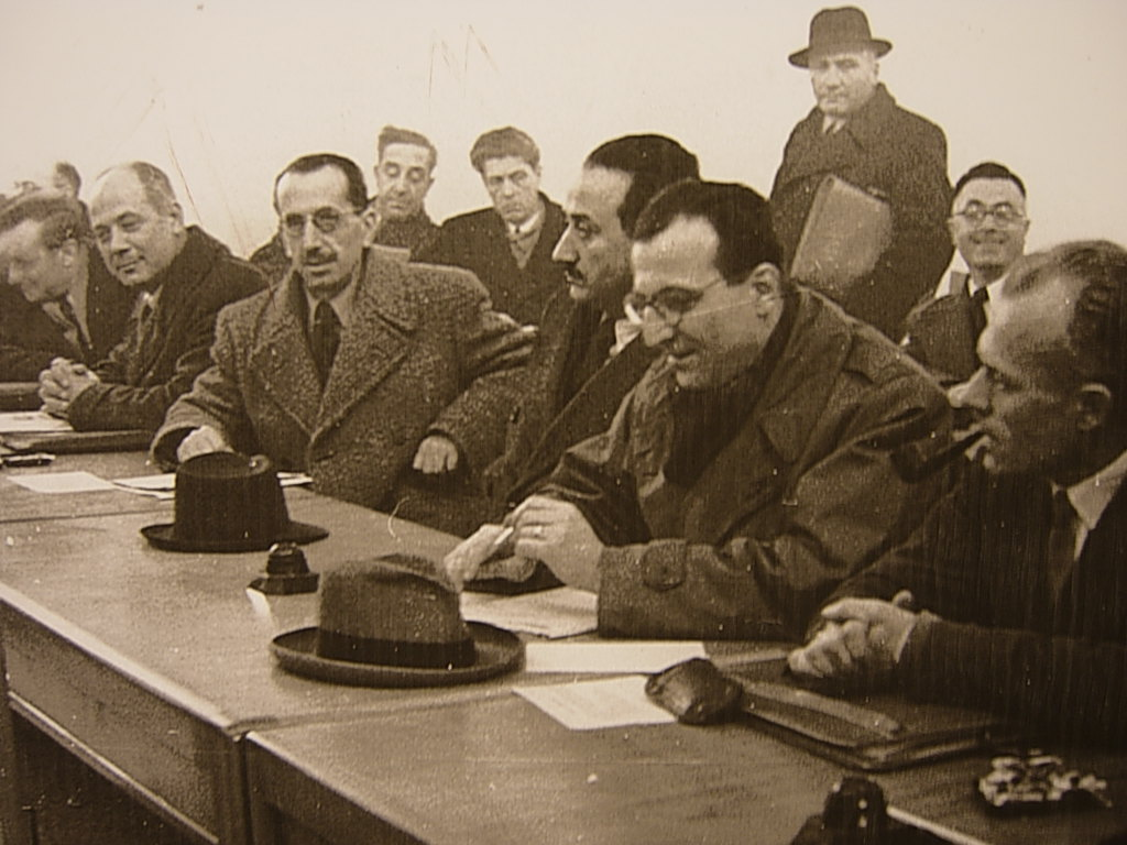 Ignazio Silone with Ivan Matteo Lombardo and Sandro Pertini 1946 Photo taken in Italy over 20 years ago in artistic content